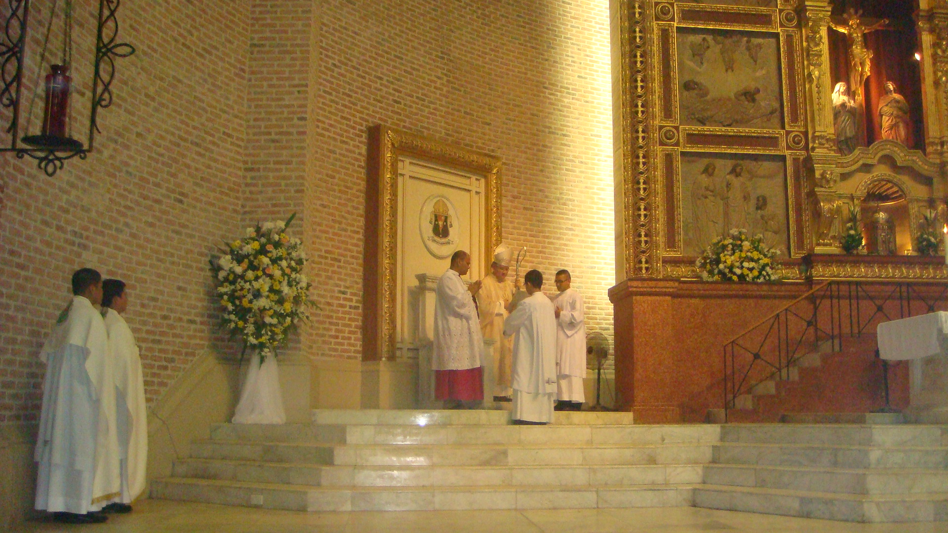 Socrates Buenaventura Villegas, DD-Archbishop of the Roman Catholic Archdiocese of Lingayen-Dagupan (2012 Easter Sunday Mass, St. John the Evangelist Metropolitan Cathedral, Dagupan City, Pangasinan)